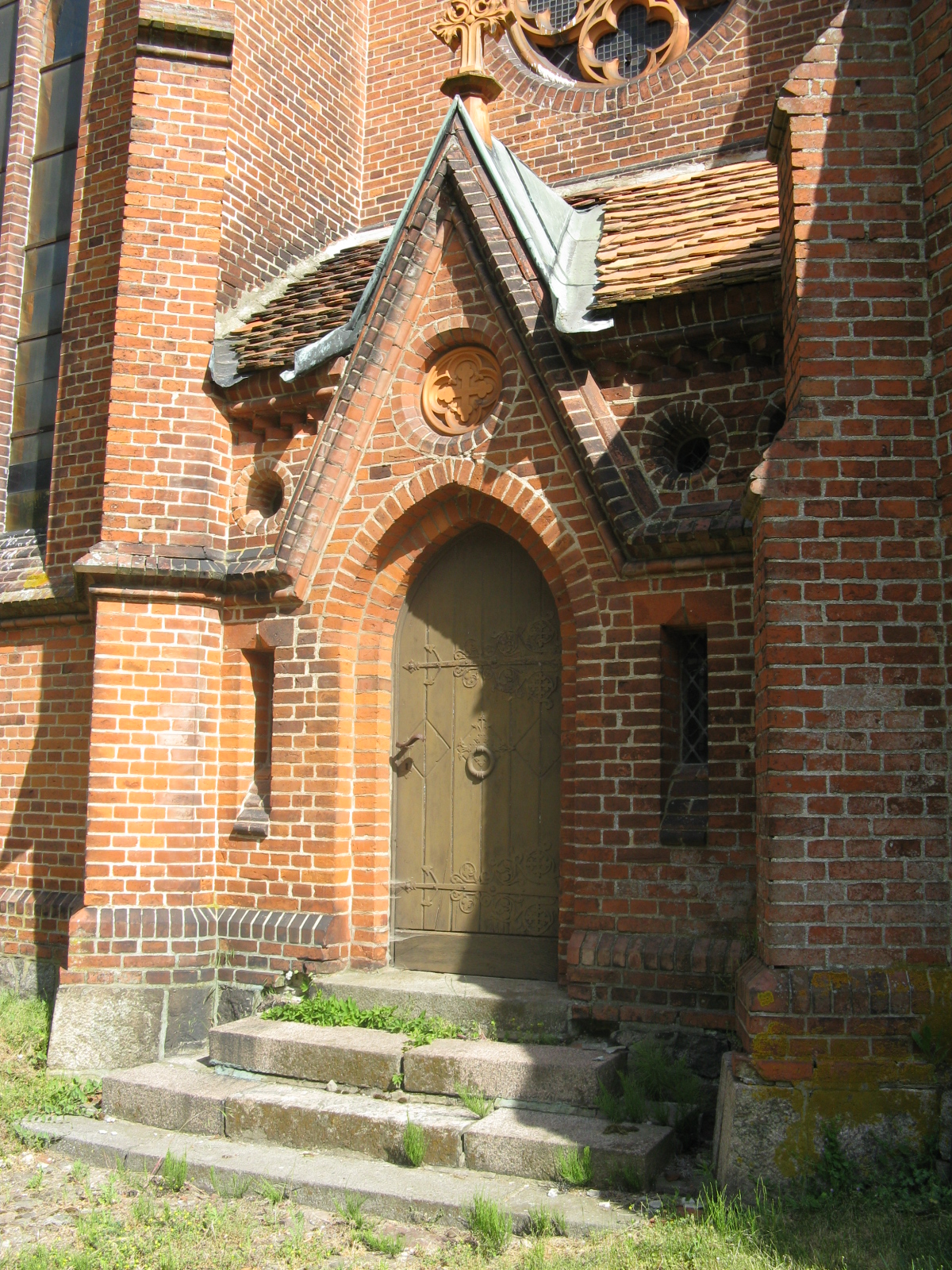 Church in Blücher, Mecklenburg-Vorpommern, Germany